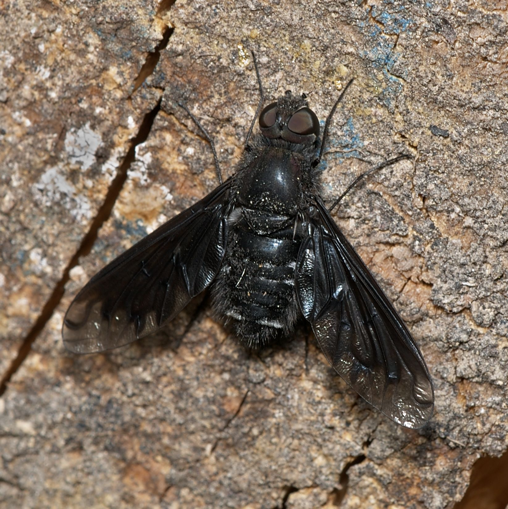 Anthrax anthrax from Königsforst near Cologne, Germany.